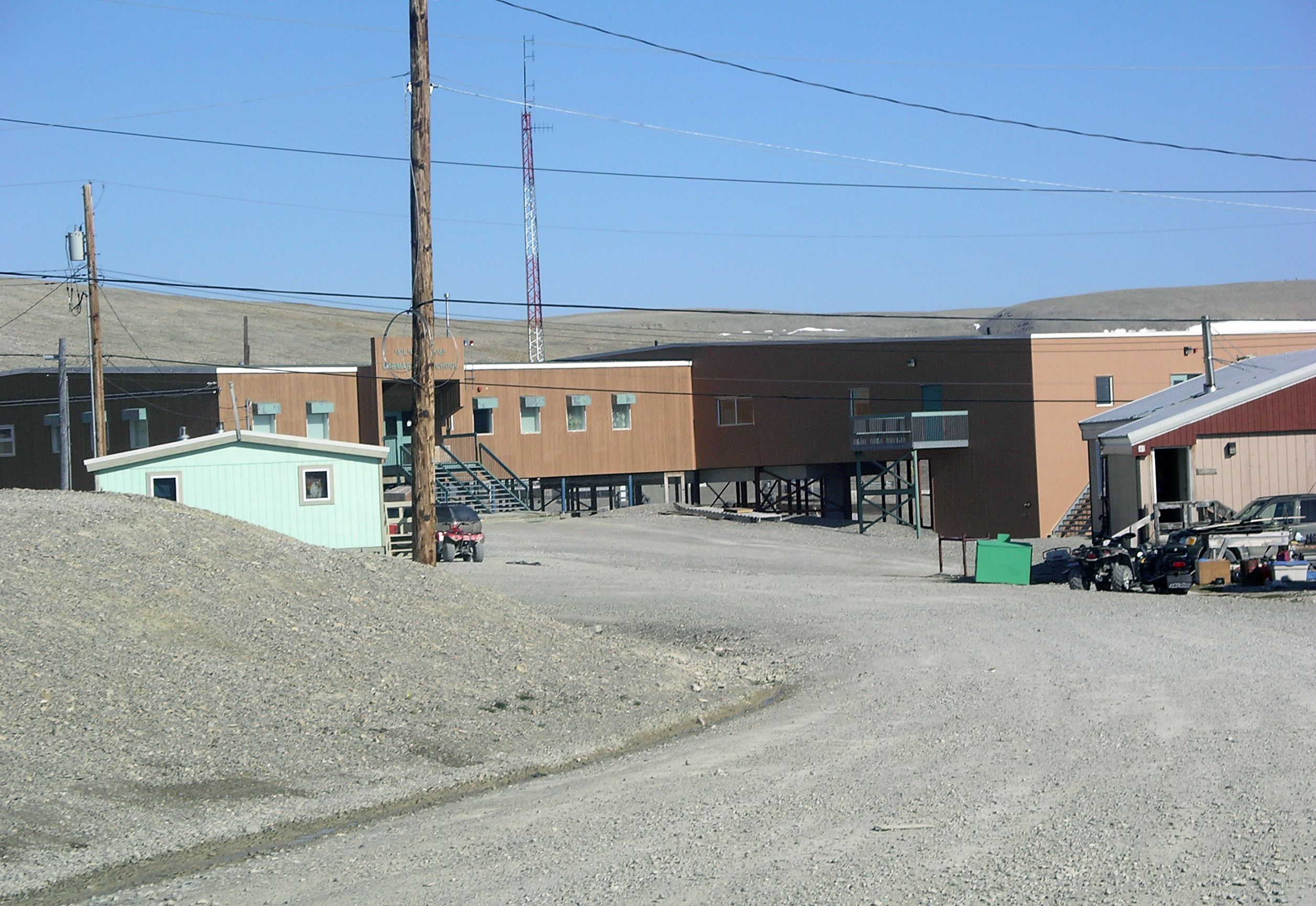 Grades Kindergarten through 12